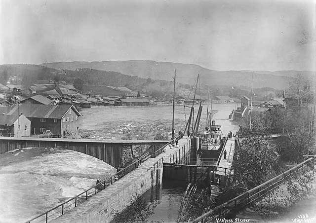 The Bandak-Norsjø Canal at Ulefoss, with the canal steamer Telemarken.